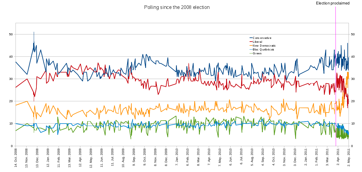 Opinion polls leading up to the 2011 Canadian federal election, created with Calc 3.2.1